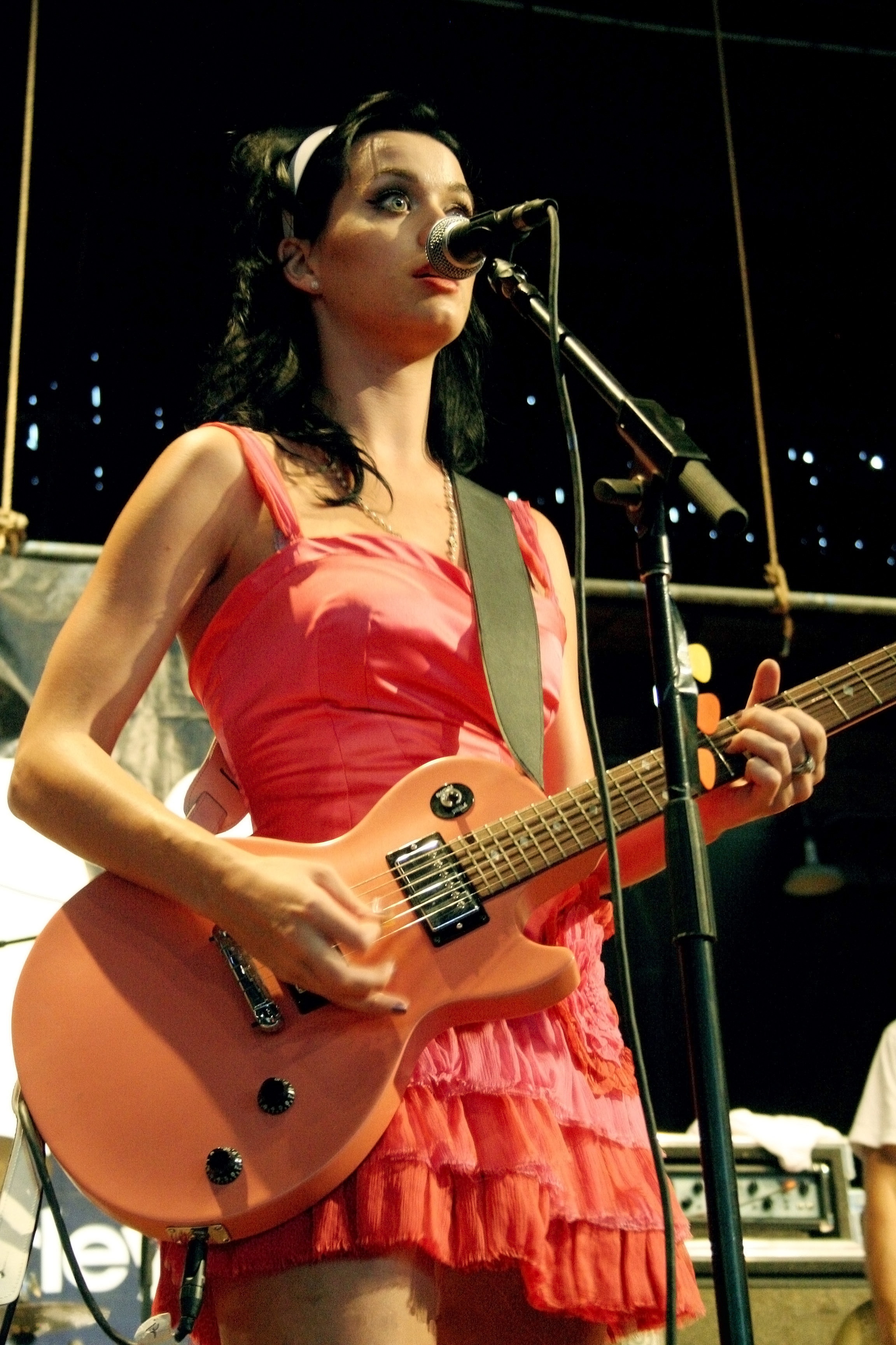 Katy Perry performing at the 2008 Warped Tour.